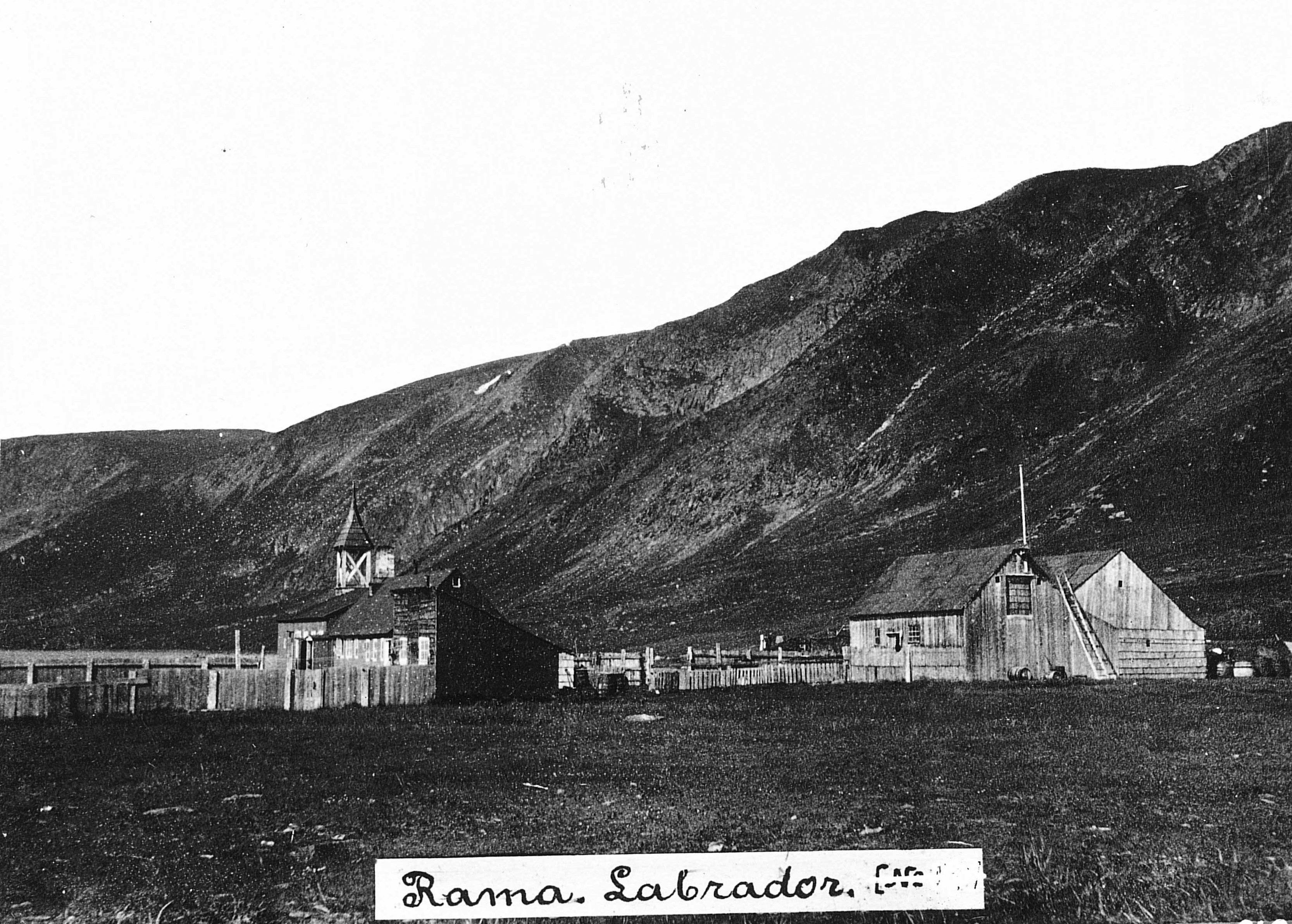 Black and white photograph of a view of Ramah against the mountains, circa 1900.